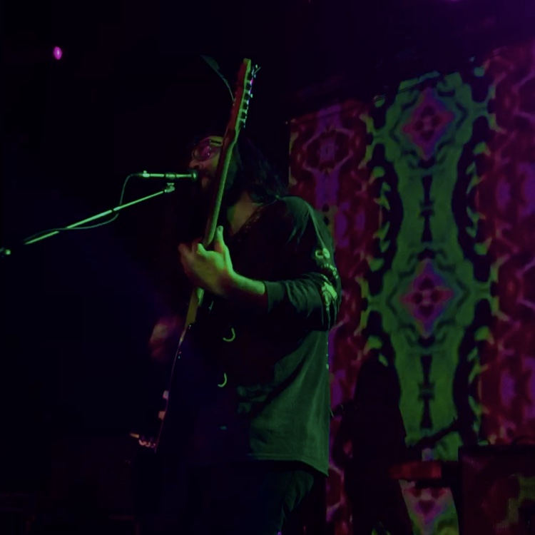 Psychedelic Porn Crumpets in New York City 2019